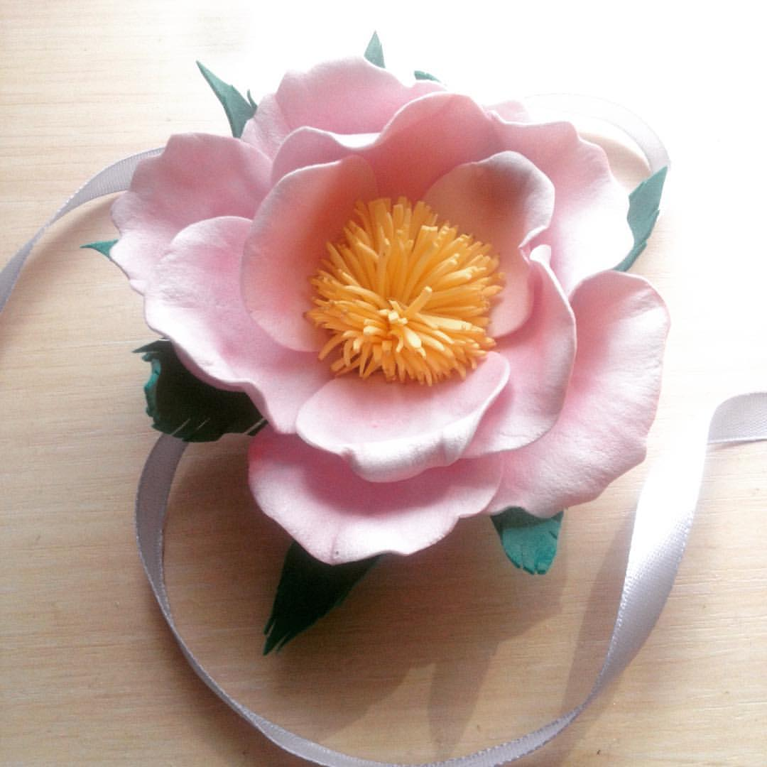 Изделие из фоамирана ручной работы